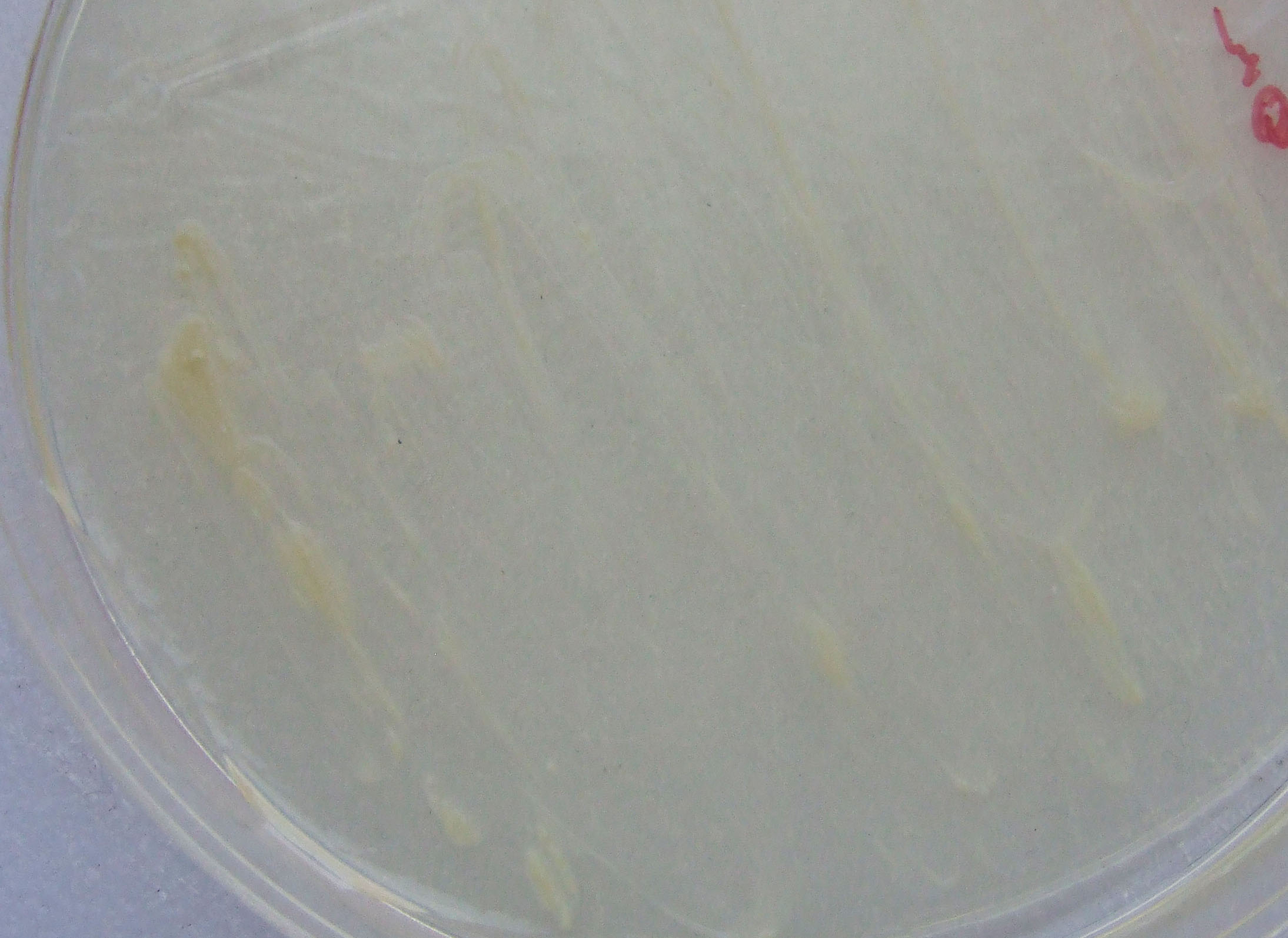 Own photo